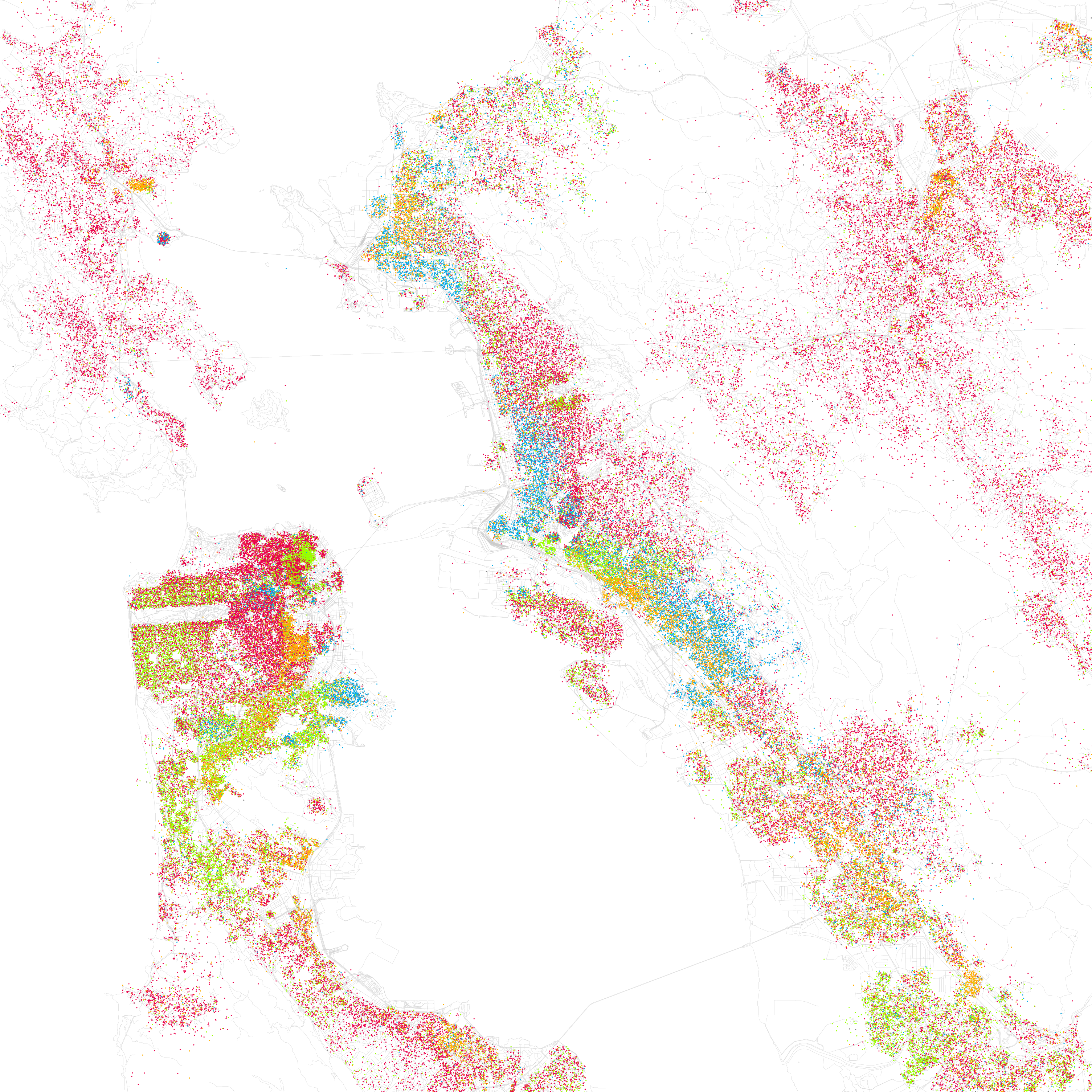 [Eric Fisher] was astounded by Bill Rankin's map of Chicago's racial and ethnic divides and wanted to see what other cities looked like mapped the same way. To match his map, Red is White, Blue is Black, Green is Asian, Orange is Hispanic, Gray is Other, and each dot is 25 people. Data from Census 2000. Base map © OpenStreetMap, CC-BY-SA